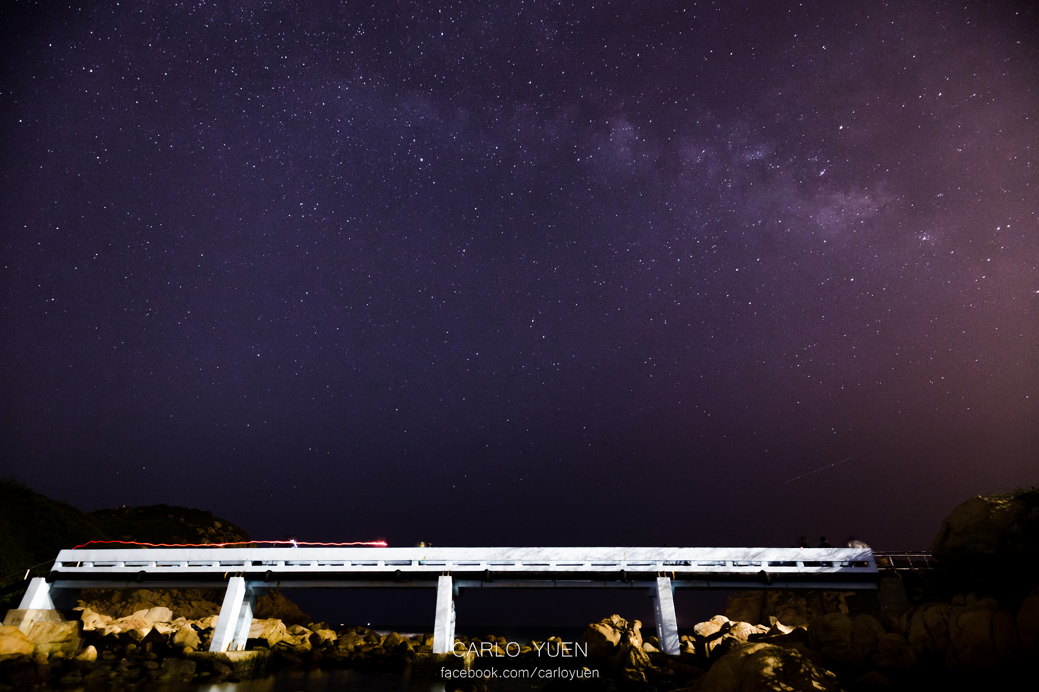 500px provided description: Milky Way, Shek O, Hong Kong [#sky ,#lake ,#red ,#city ,#sea ,#people ,#water ,#beach ,#blue ,#night ,#light ,#clouds ,#ocean ,#waves ,#rocks ,#stars ,#green ,#long exposure ,#clear ,#photography ,#hong kong ,#milky way ,#galaxy ,#photographers ,#travel architecture]